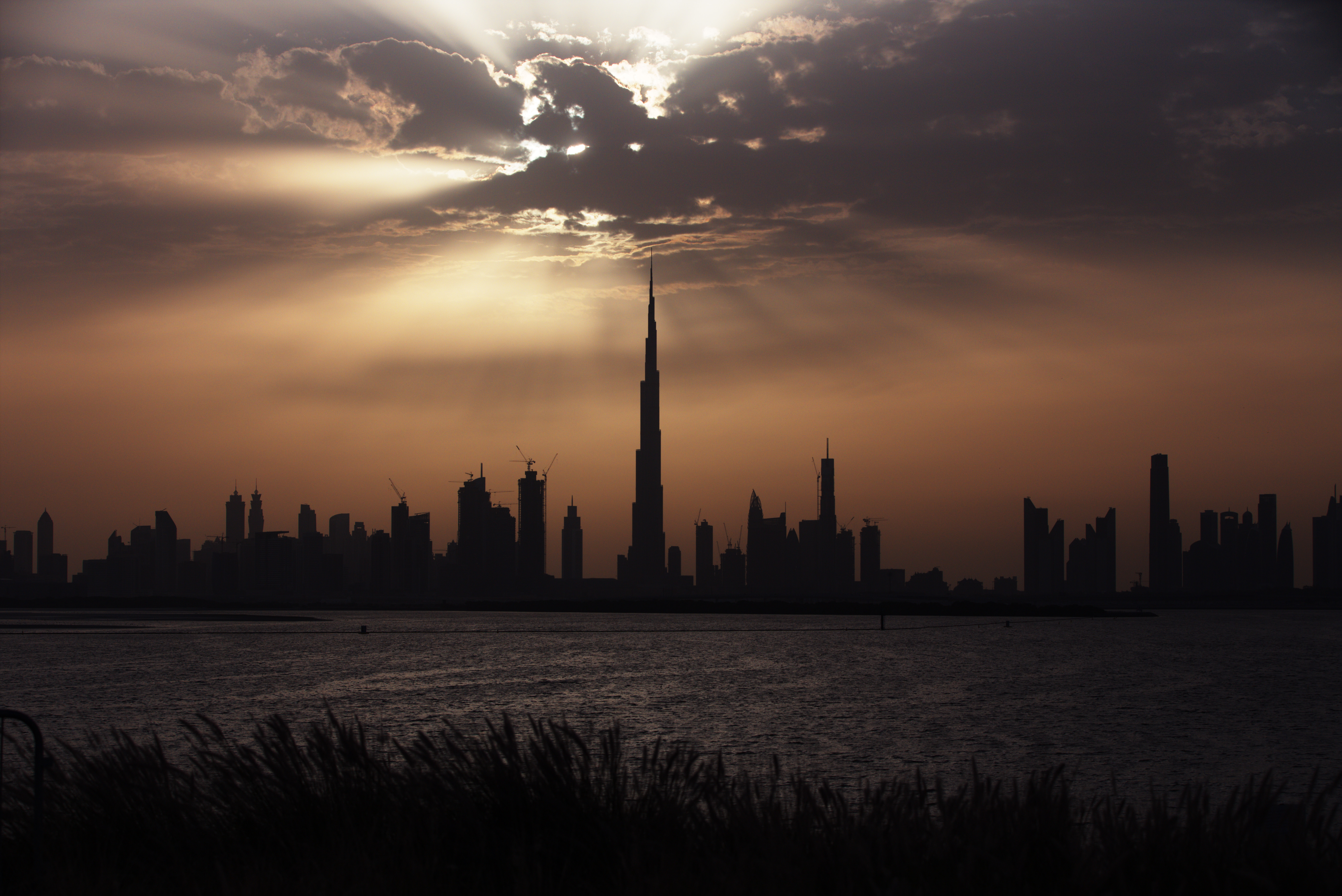 Burj Khalifa (worlds tallest building) and the Dubai skyline